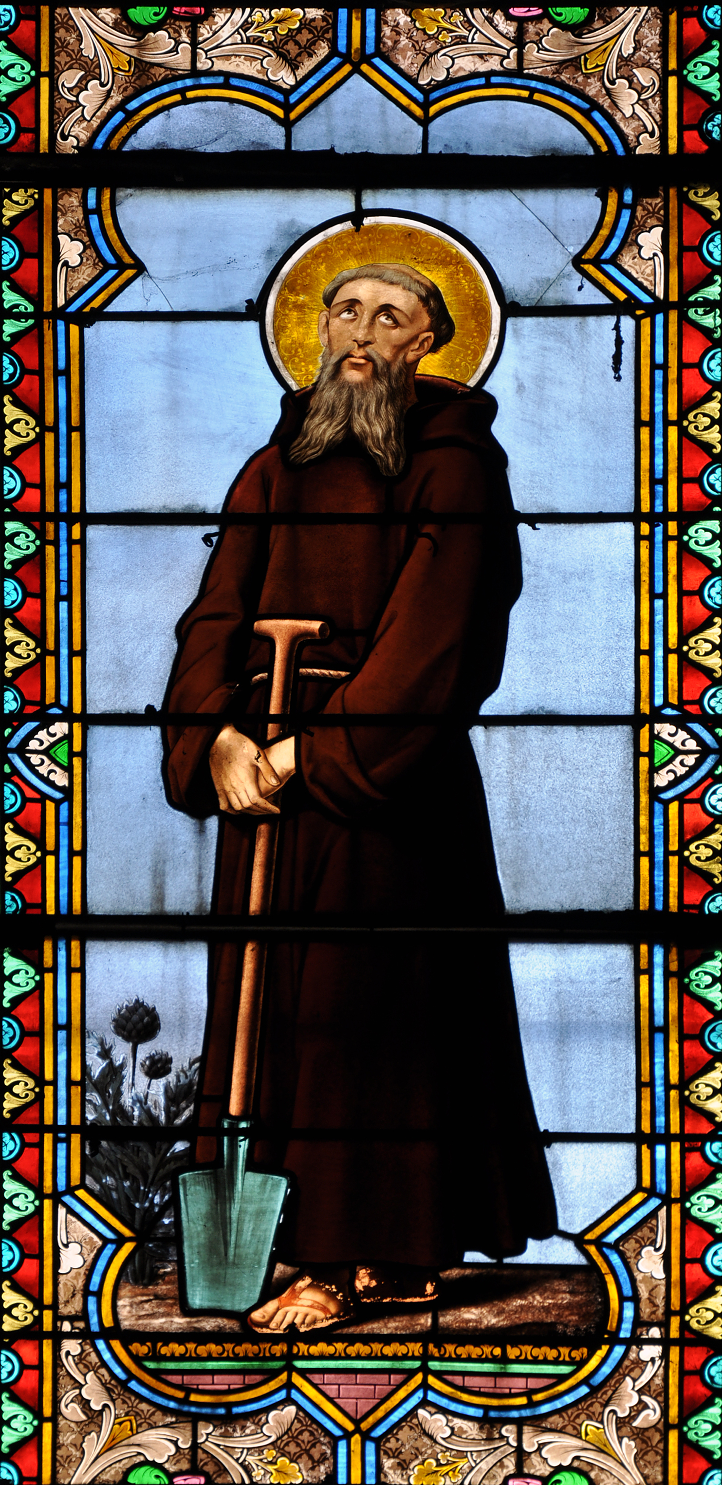 A stained glass window, 19th century, Eglise Notre-Dame, Bar-le-Duc, France. Saint Vincent.